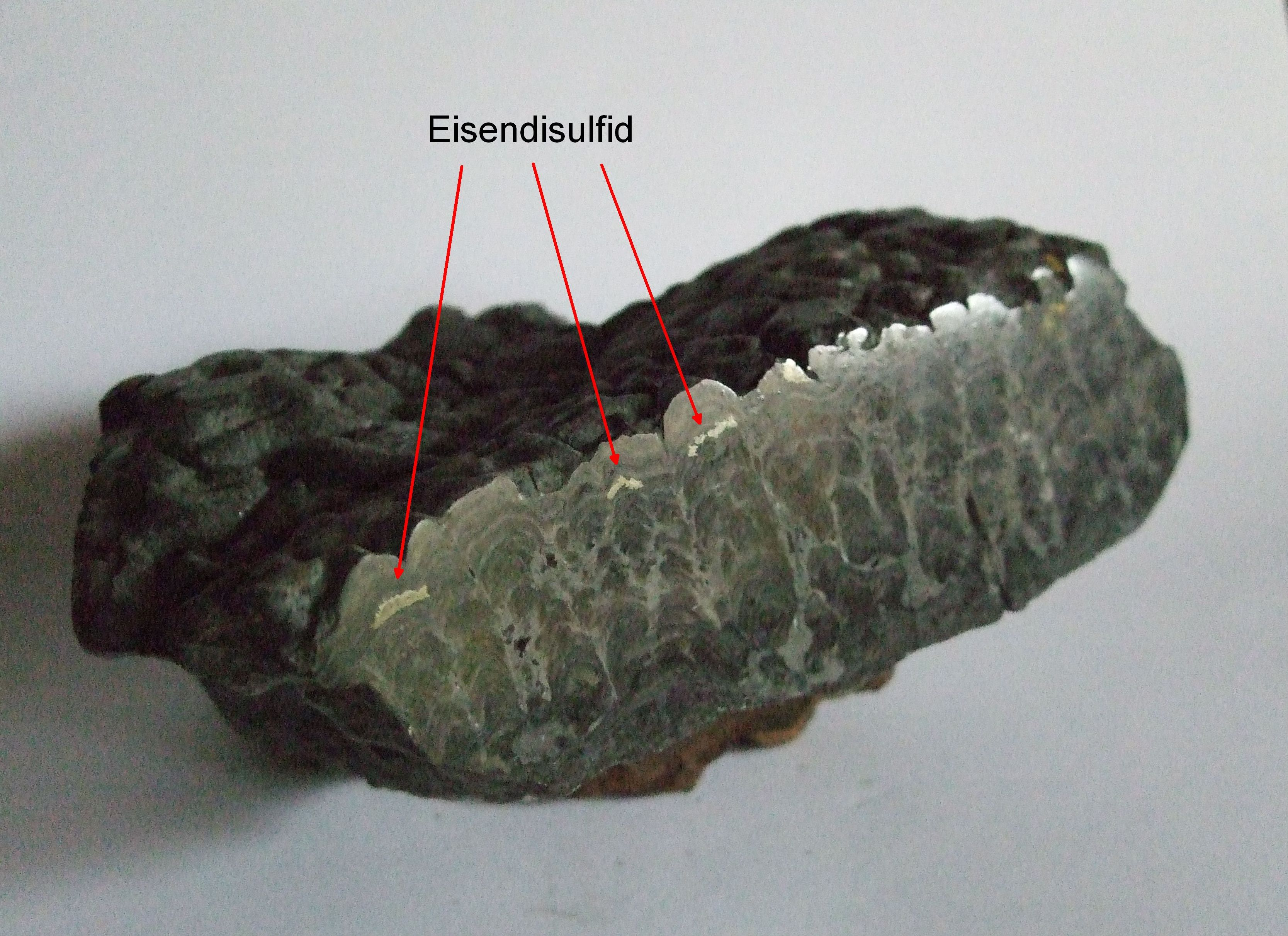 Stromatolite with inclusions of ferrous disulphide (FeS2). Upper Malm, Jurassic. Origin: Thüste (Salzhemmendorf), Lower Saxony, Germany.